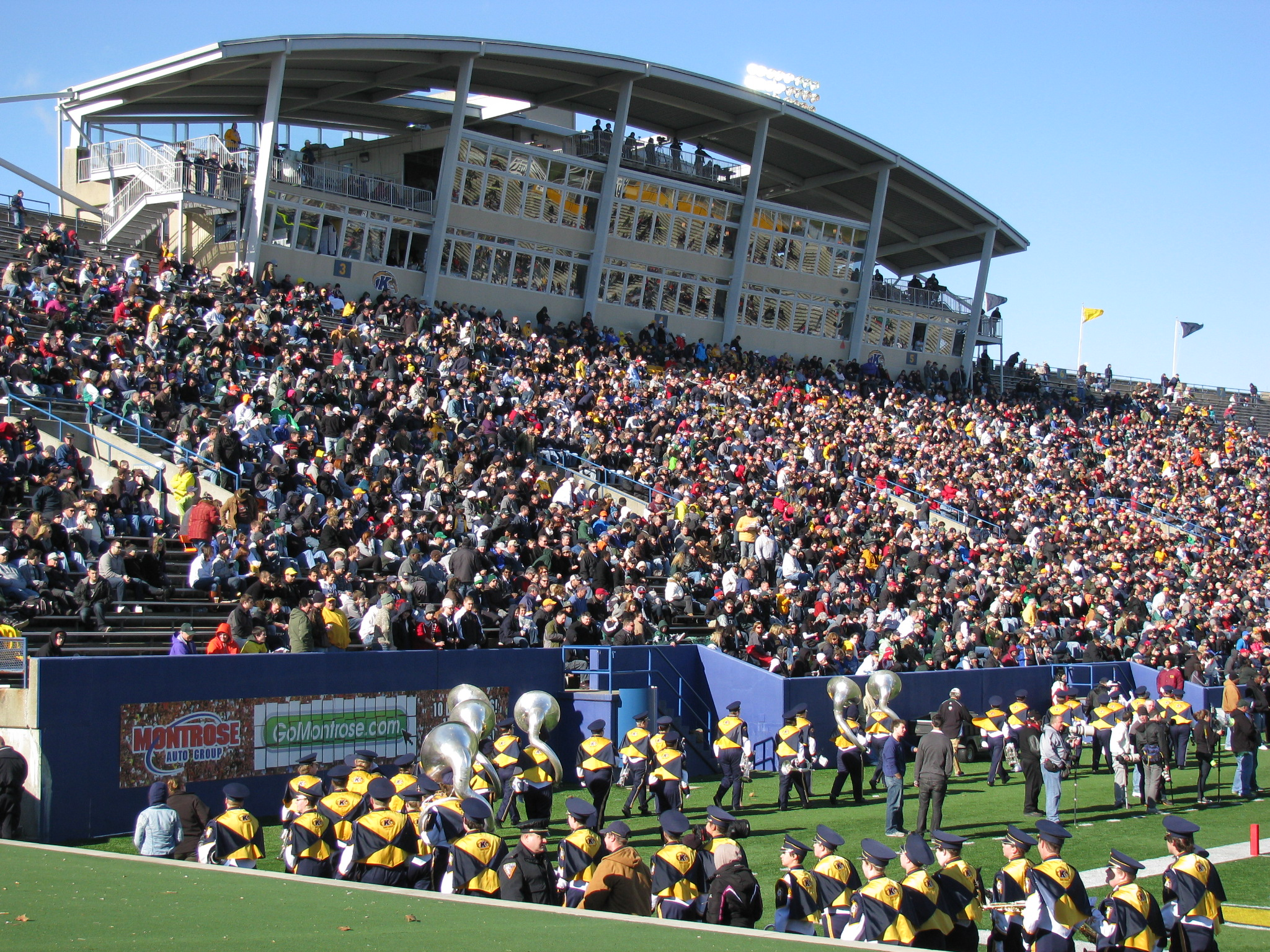 View of the west stands of Dix Stadium in Kent, Ohio on the campus of Kent State University during a game on November 23, 2012 between the Flashes and the Ohio Bobcats. Kent State won the game 28-6 to clinch the team's first undefeated season in MAC play (8-0) and an undefeated season at home. It was also the team's 10th-consecutive victory on the season, a school record.